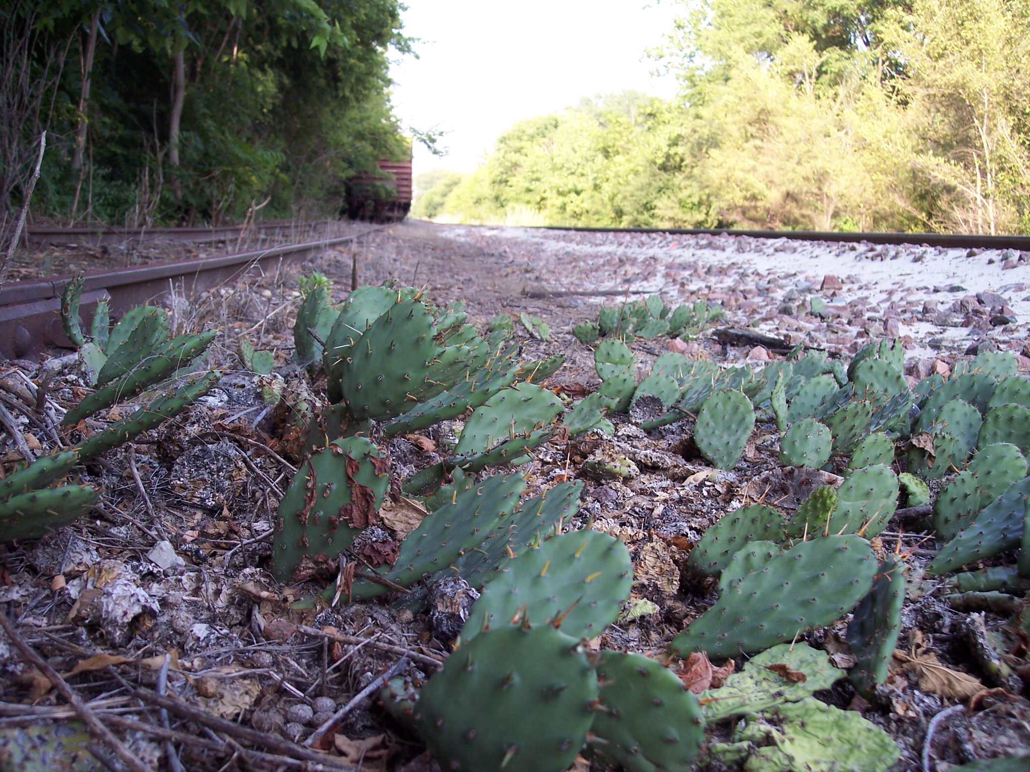 Opuntia humifusa growing wild in Ottawa.